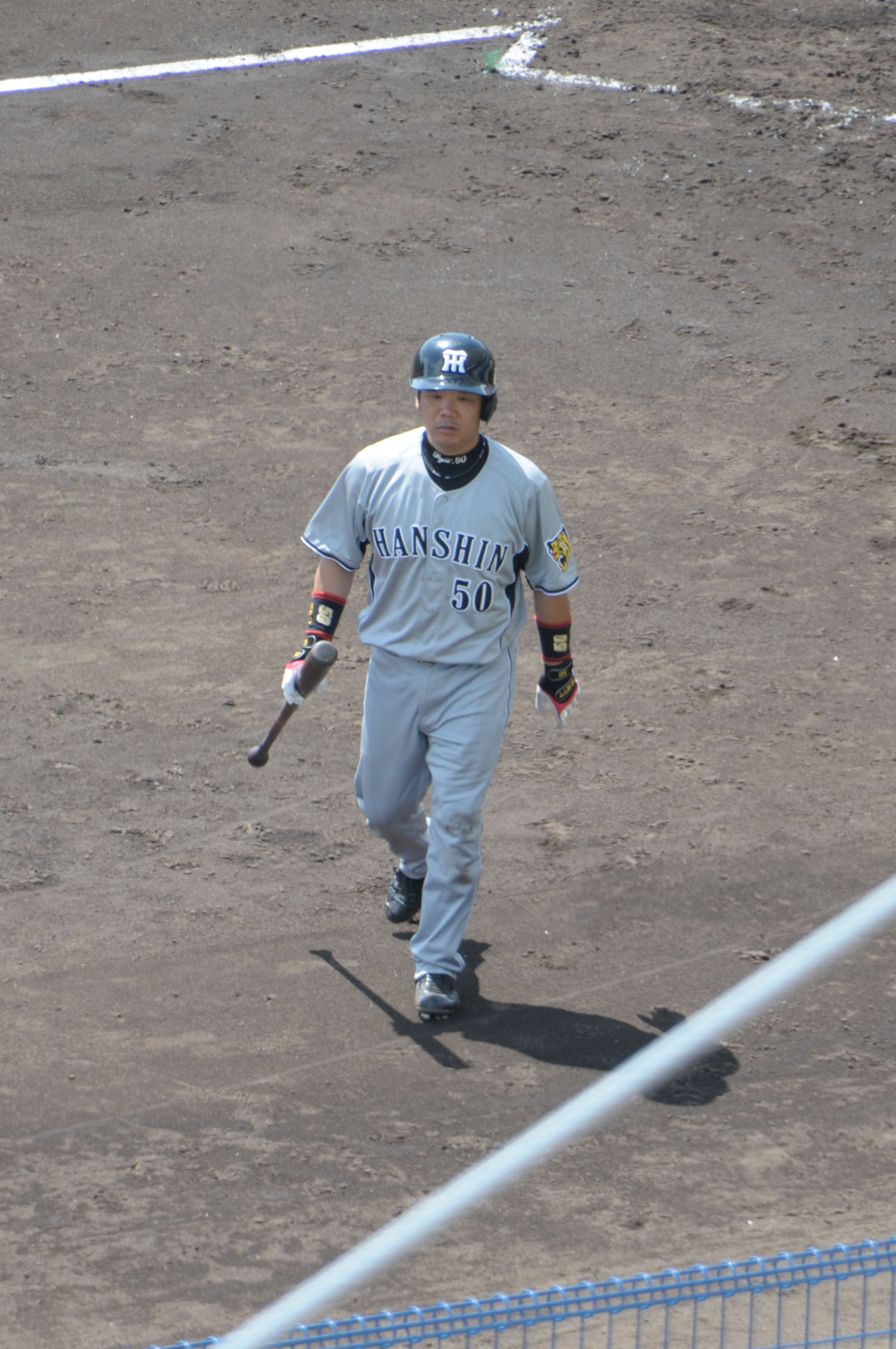 Akihito Fujii, catcher of the Hanshin Tigers, at Akita Prefectural Baseball Stadium.